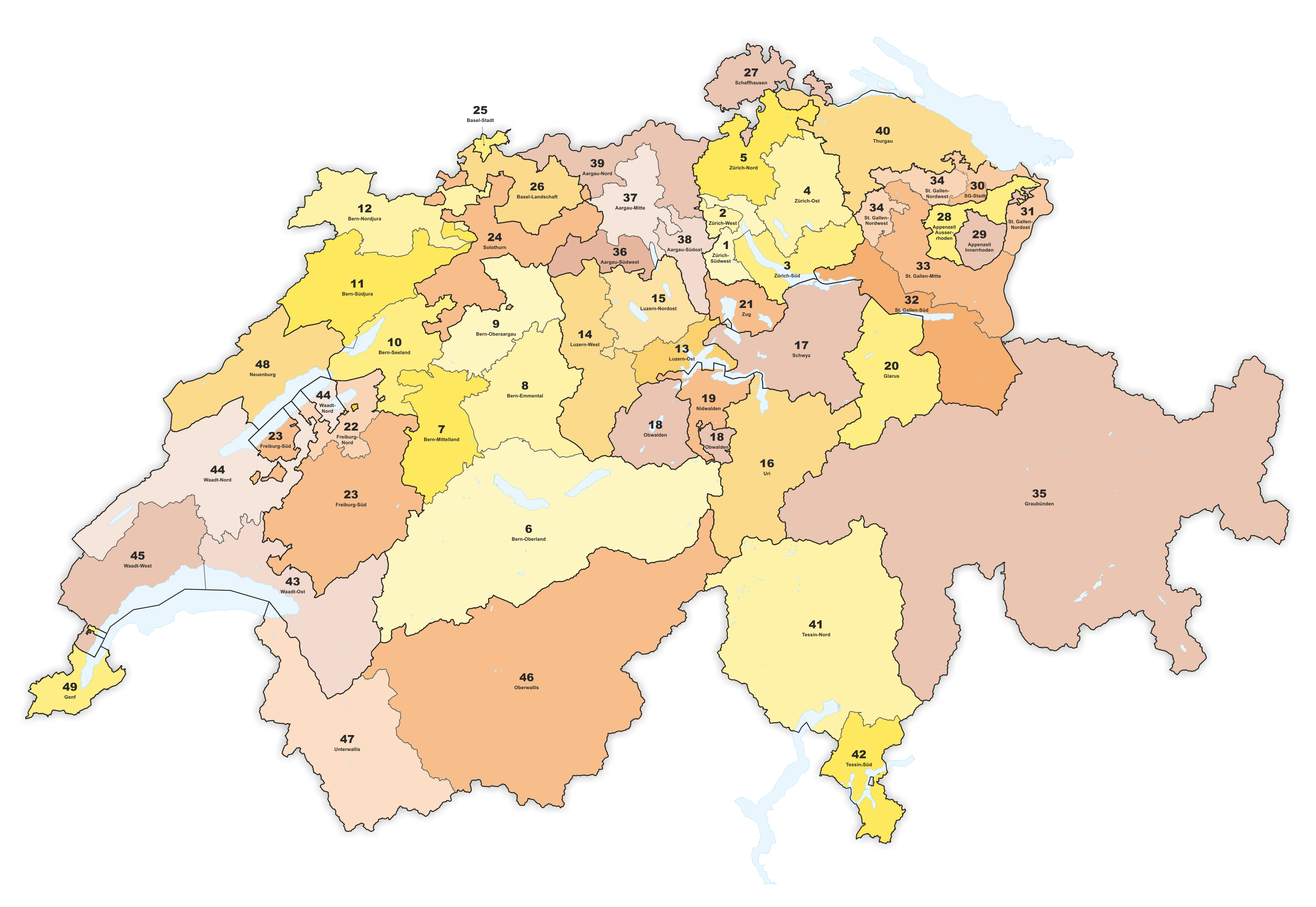 Swiss national council constituencies from 1911 to 1917